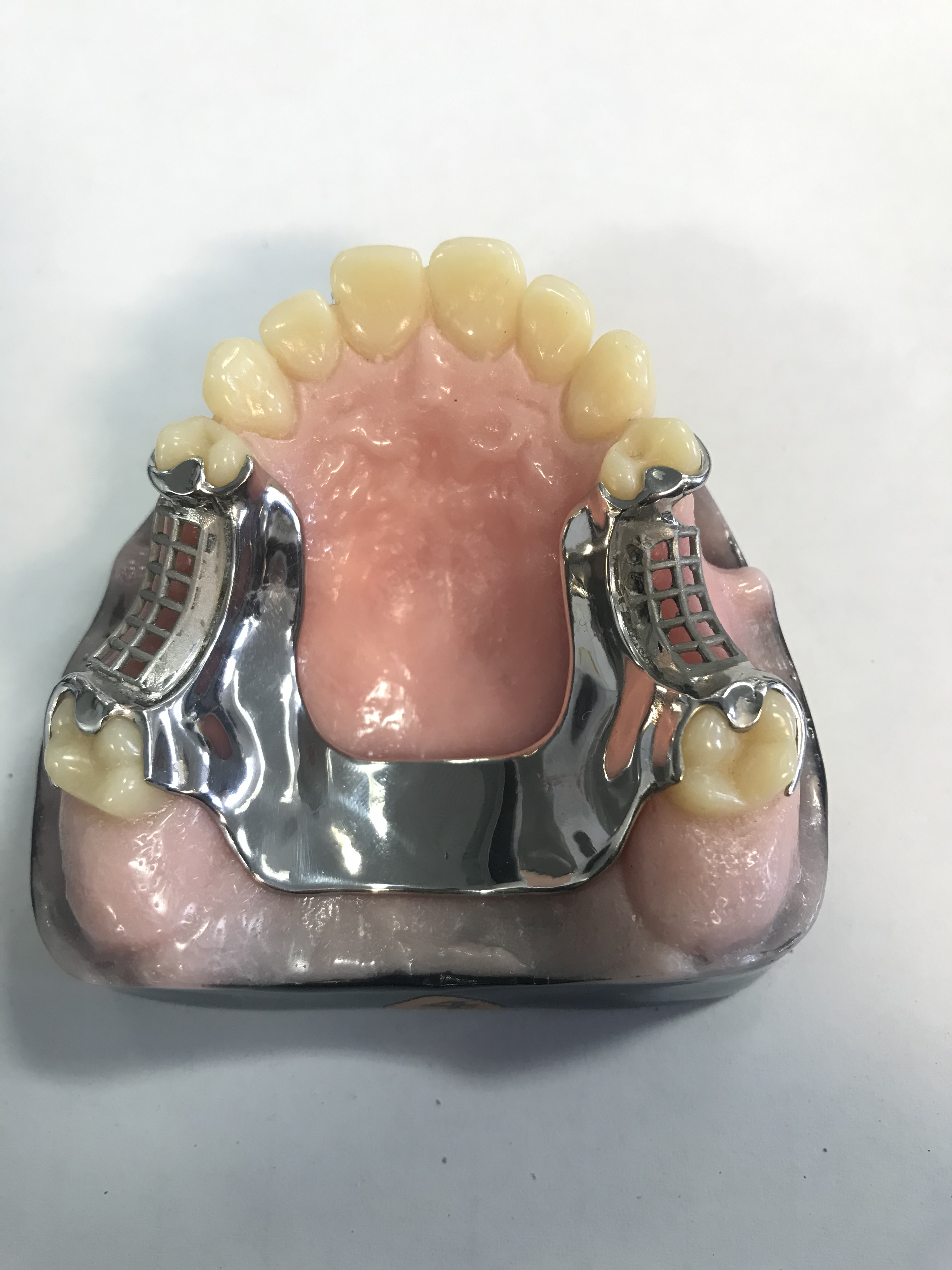 The image shows a palatal bar